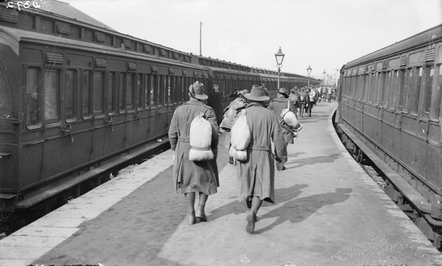 AIF troops just landed from France at Weymouth in England for repatriation entraining at the railway station for the dispersal depots in England.